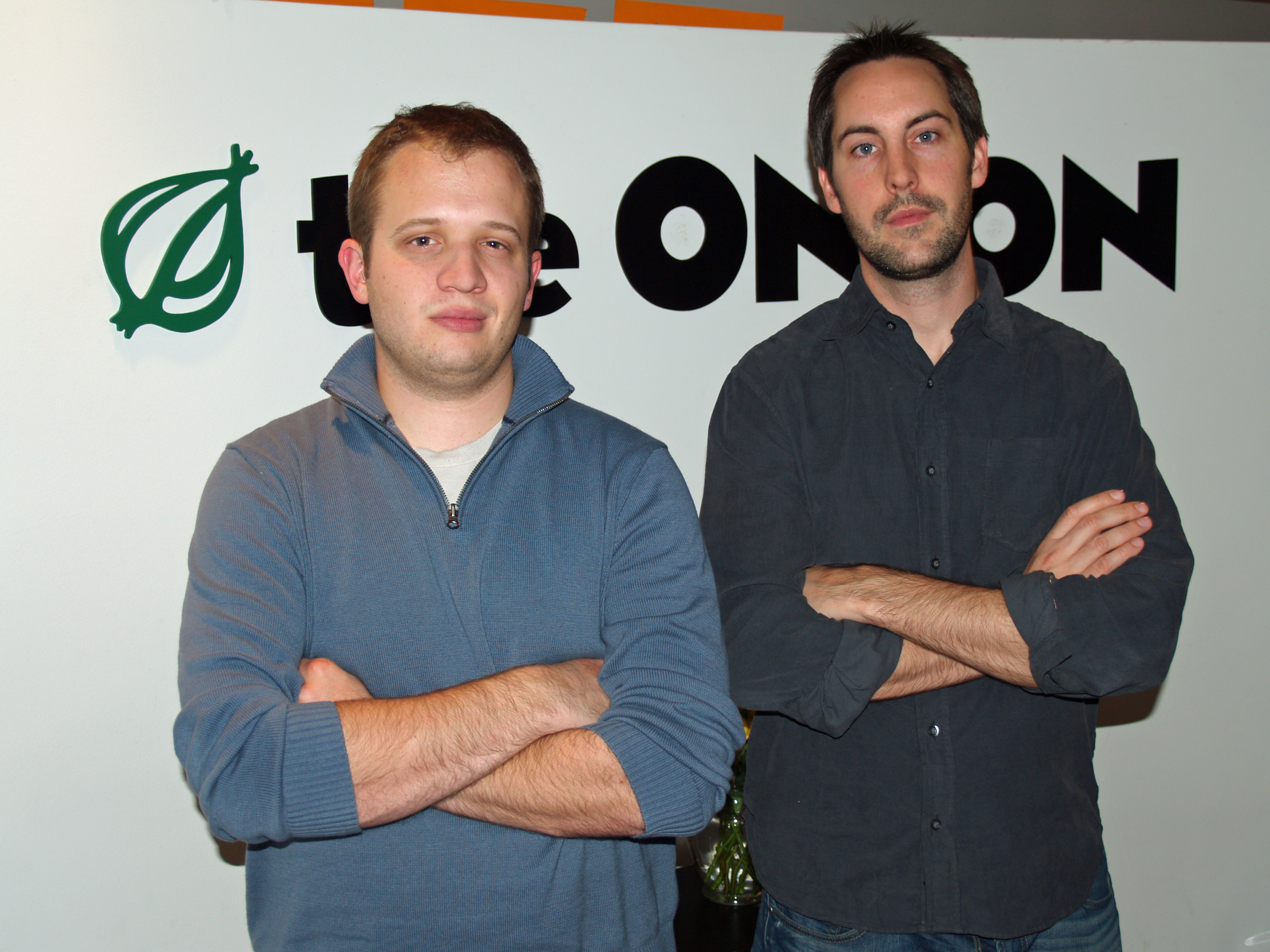 The Onion's Editorial Manager Chet Clem and President Sean Mills